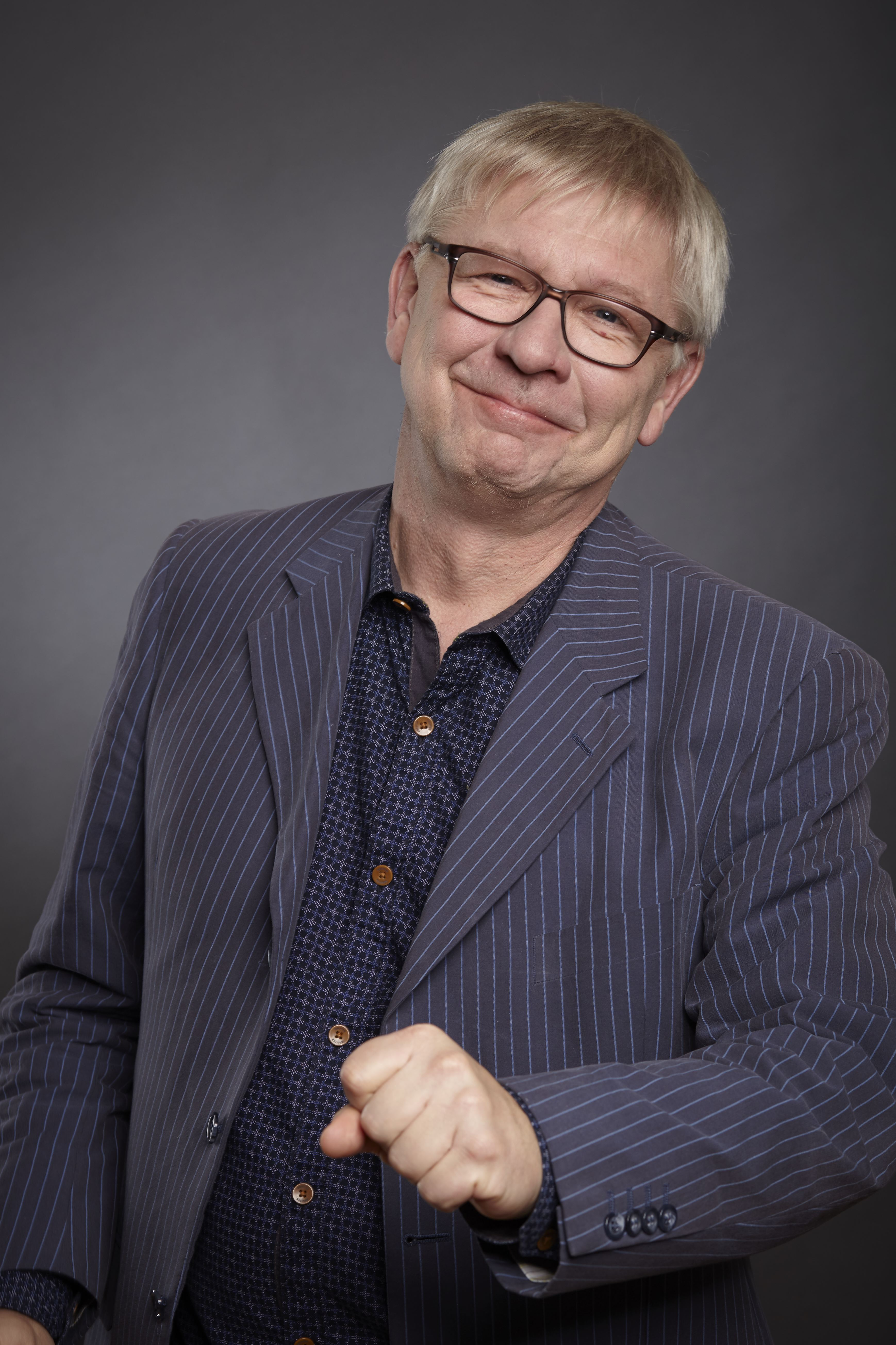 Thomas Gabriel close up in October 2015 at the Ketteler Musiktage